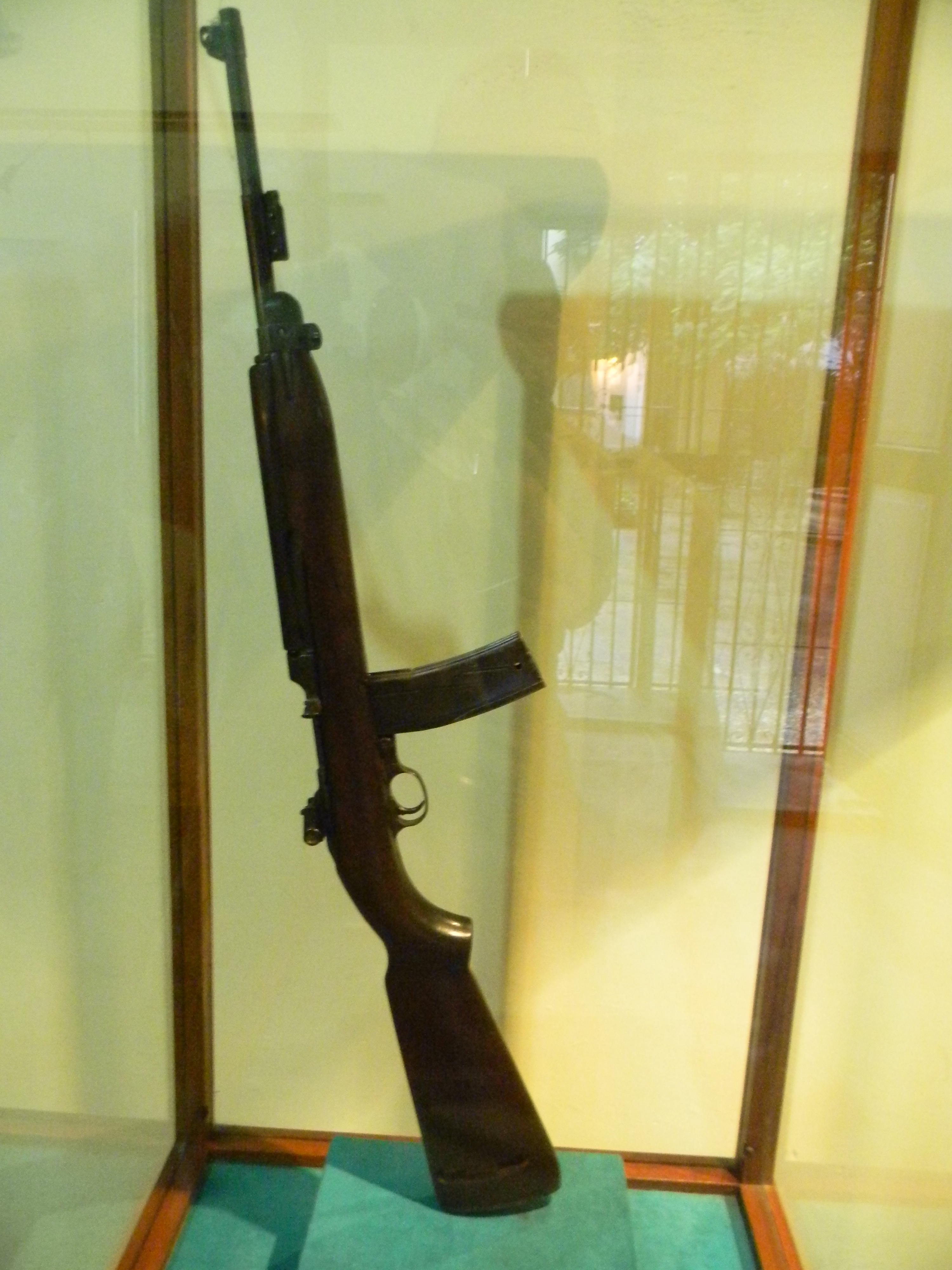 Che Guevara Machine Gun in Havanas Museum